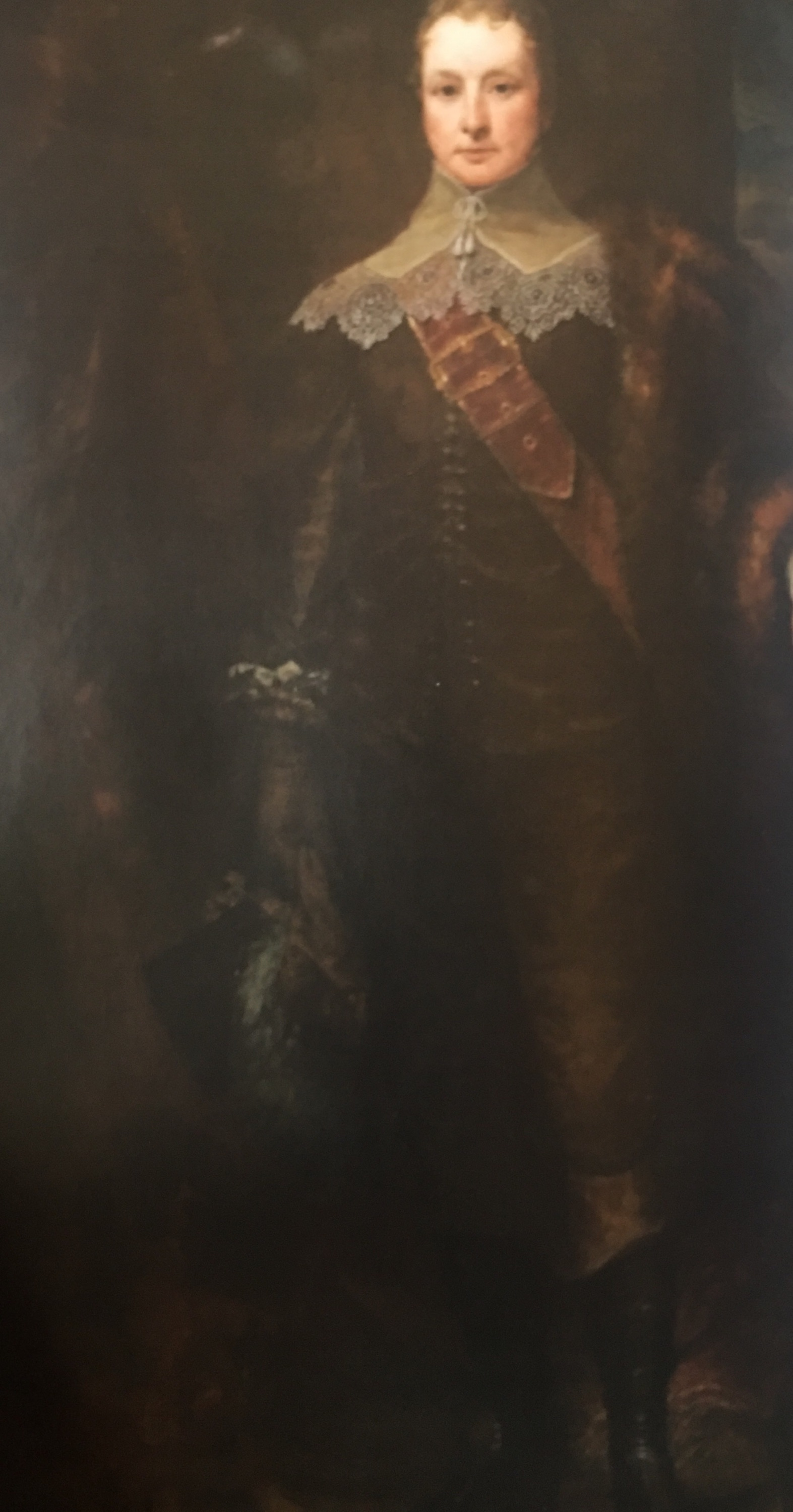 This portrait was painted of John Butler, the 25th Chief Butler and 1st Marquess of Ormonde by John Comerford. This portrait is oil on canvas and survives to the present day in Kilkenny Castle.